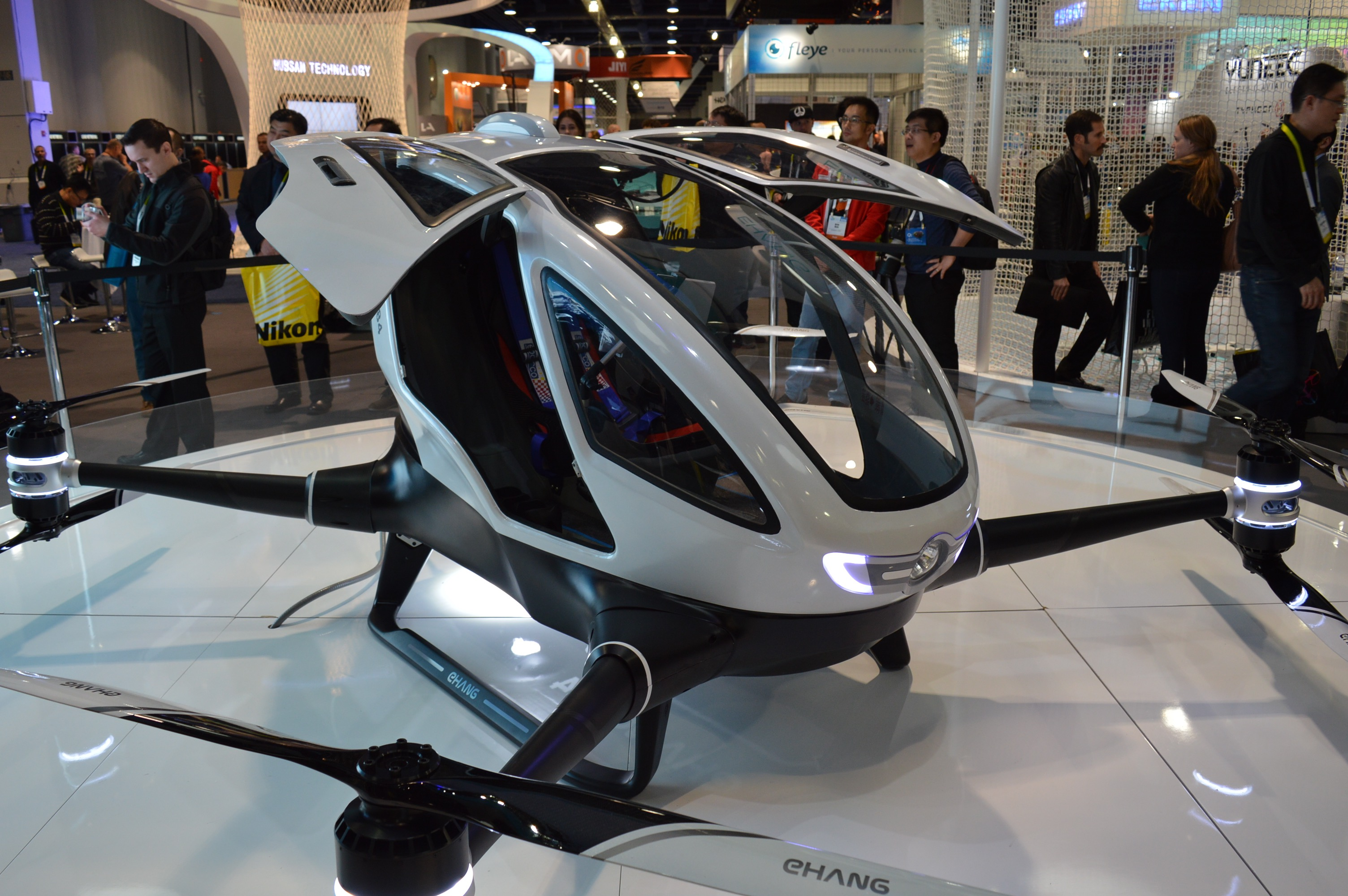 ehang 184, Consumer Electronics Show 2016, Las Vegas